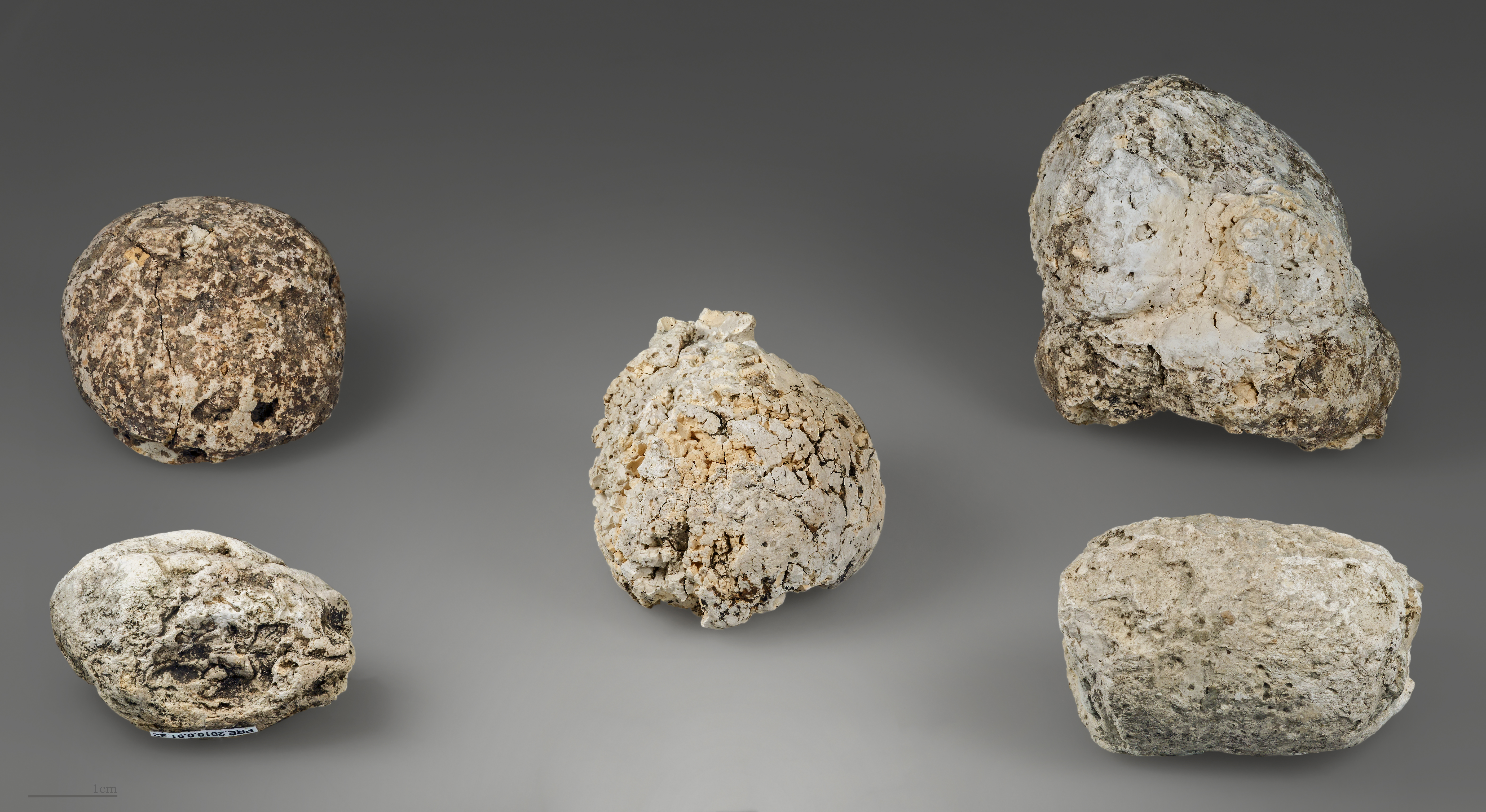 Coprolite of Crocuta crocuta spelaea (Cave hyena) Stage : Aurignacian between 37 000 and 28 000 BP Locality and Collection : Aurignac cave, Haute-Garonne, France. Former collection of Édouard Lartet, 1861.